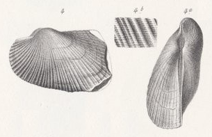 Trisidos semitorta syn. Arca kurracheensis (=Trisidos kuracheensis Archiac, 1853), Arcidae, Bivalvia, Mollusca